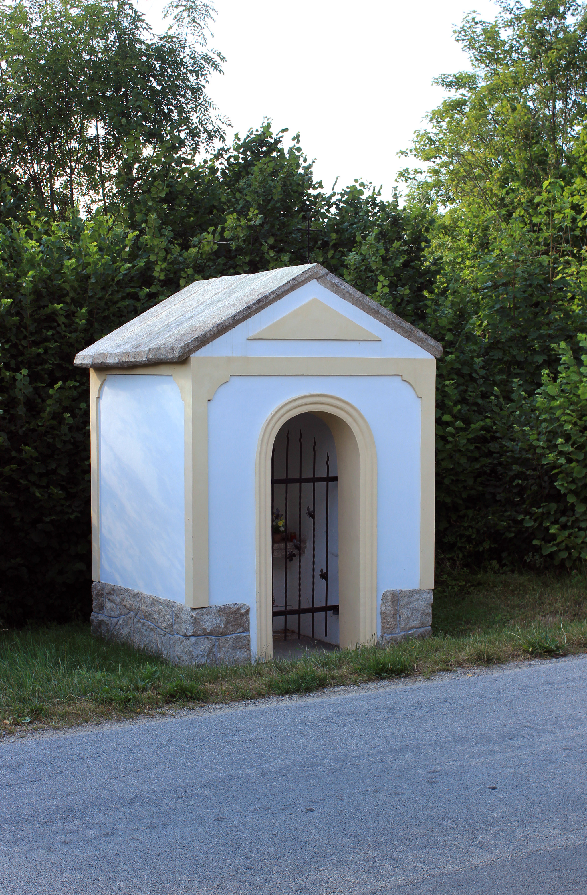 Chapel in Kunějov, part of Člunek, Czech Republic.